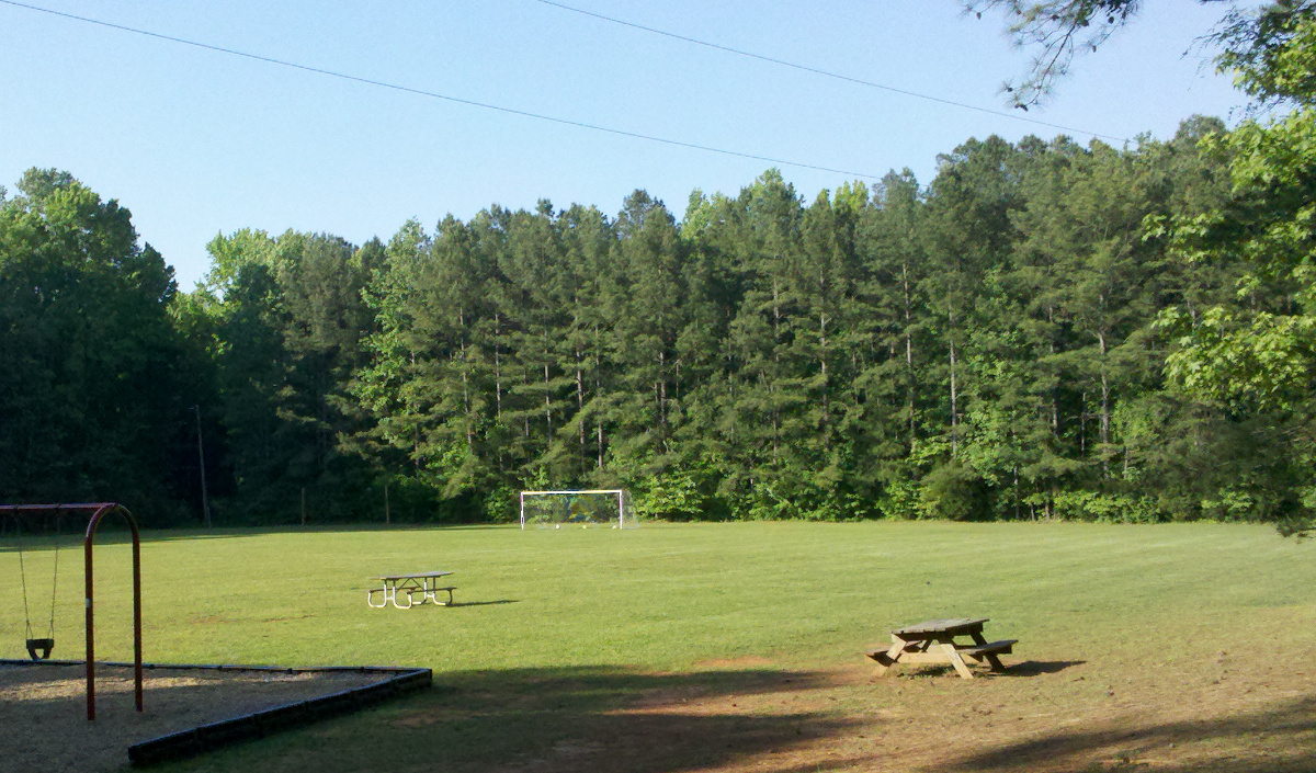 Northwest Park, Chatham County NC, USA, May 2013. Soccer Field.